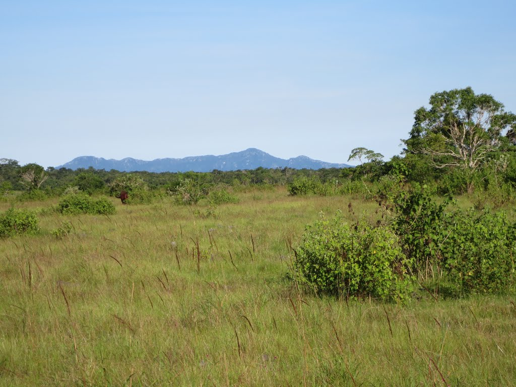 View to Paitchau range from Assalaino plateau